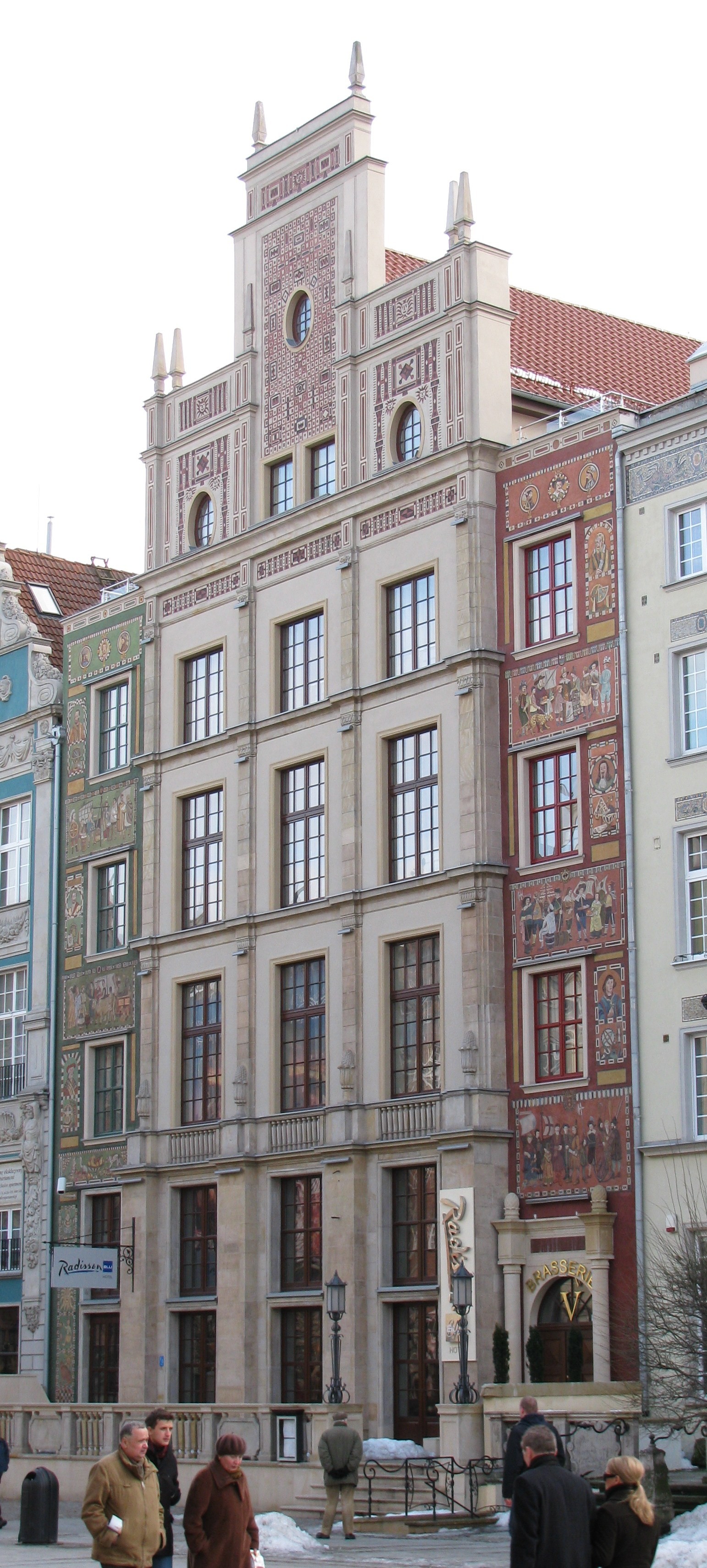 Radisson hotel. Gdansk, Poland.